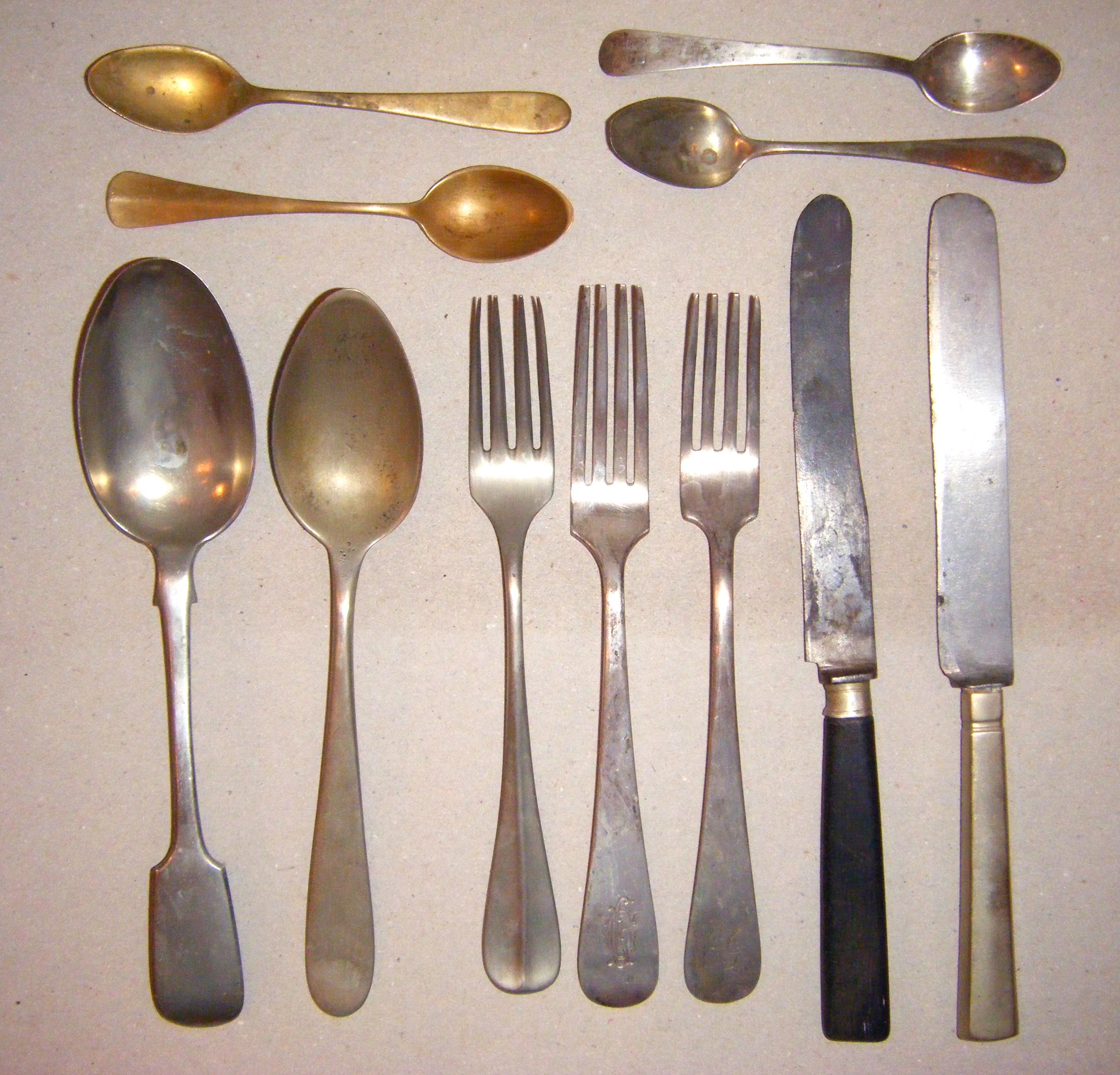 Vintage cutleries (second half of XIX cent.)